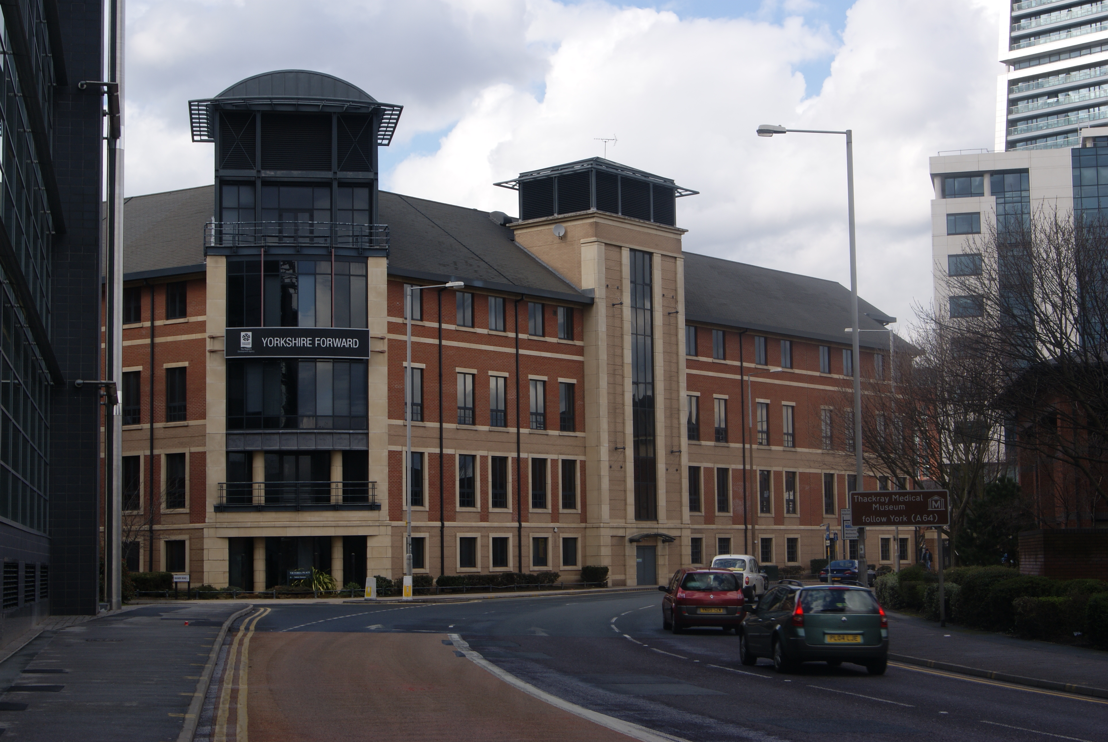 The offices of Yorkshire Forwards on Victoria Road (LS11), Leeds, West Yorkshire. Taken on the afternoon of Saturday the 3rd of April 2010.